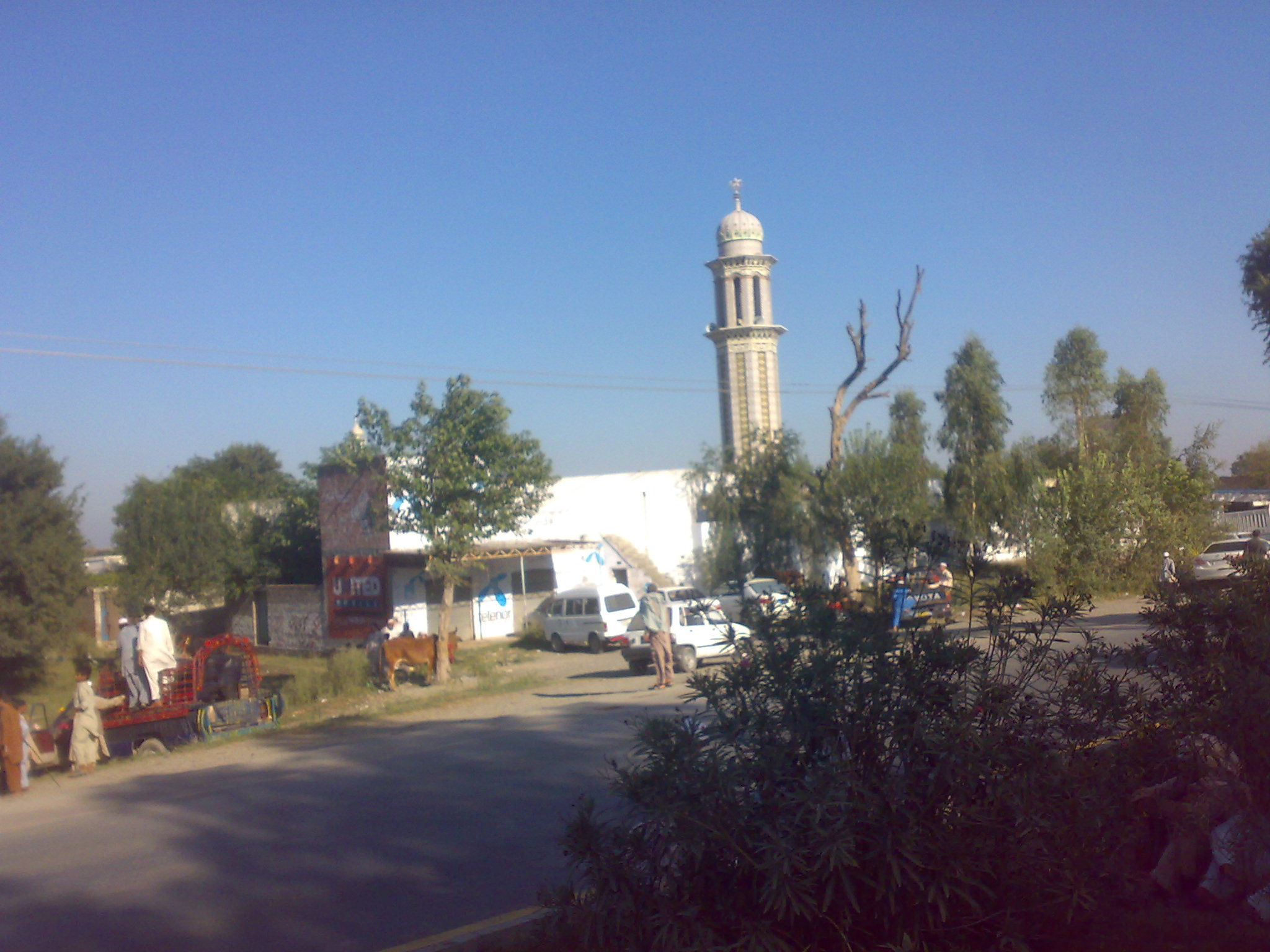 Rabbania